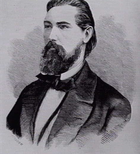 This image shows a picture of John Macadam, created in 1865. Under Australian law, all pictures created in Australia before 1955 are in the public domain. This image is in the public domain under both Australian copyright law and US copyright law.